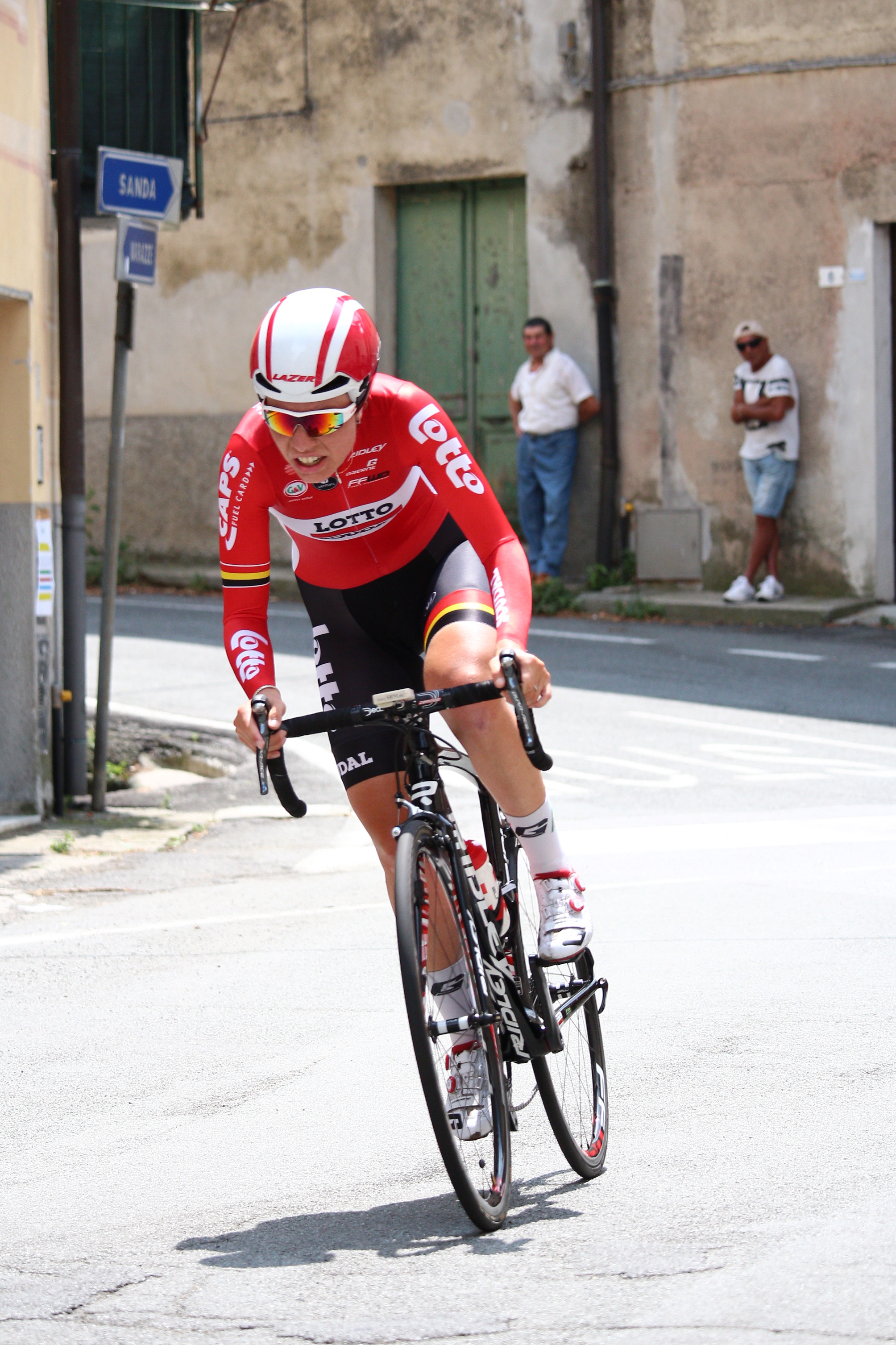 Susanna Zorzi during the 7th stage of Giro Rosa 2016 in Stella San Martino